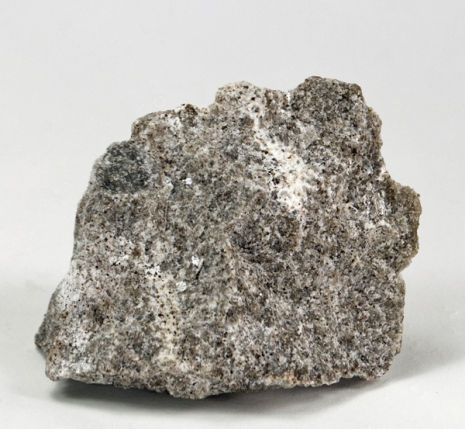 Periclase, variety Ferropericlase Locality: San Vito quarry, San Vito, Ercolano, Monte Somma, Somma-Vesuvius Complex, Naples Province, Campania, Italy Size: 8.2 cm x 6.4 cm x 2.4 cm Periclase is a rare Mg-oxide and the famed Monte Somma is the Type Locality. Ferropericlase is the Fe-rich varietal. Tiny, lustrous and translucent, grayish-green crystals are festooned on all sides of the matrix on this very rich example from this ancient pumice mine. Ex. Luigi Chiappino and Matioli Collections. Seldom available